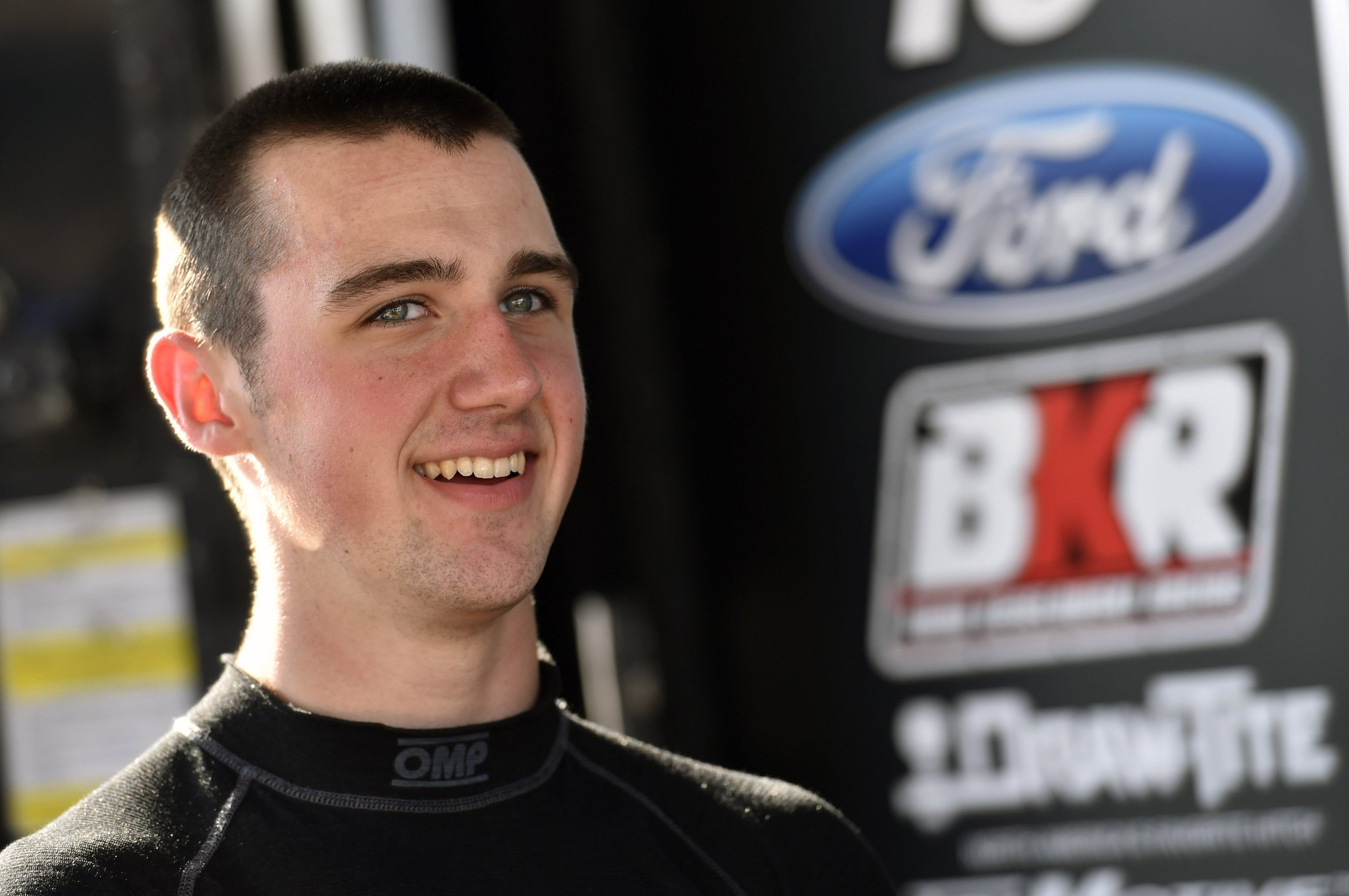 Austin Cindric at Brad Keselowski Racing hauler at Iowa Speedway race.